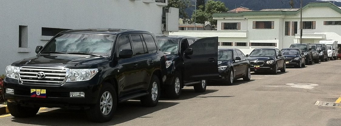 Colombias presidents motorcade